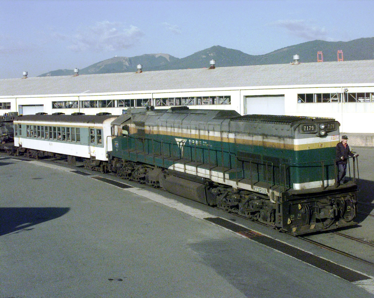 A train departs Pier 8 at the Port of Pusan, Republic of Korea, Oct. 24, 1998. Aboard the train are soldiers from the United States. The train is also carrying various types of tracked vehicles. The train is headed for Camp Humphries where it will discharge its passengers and equipment so they can continue their mission in Exercise Foal Eagle '98.